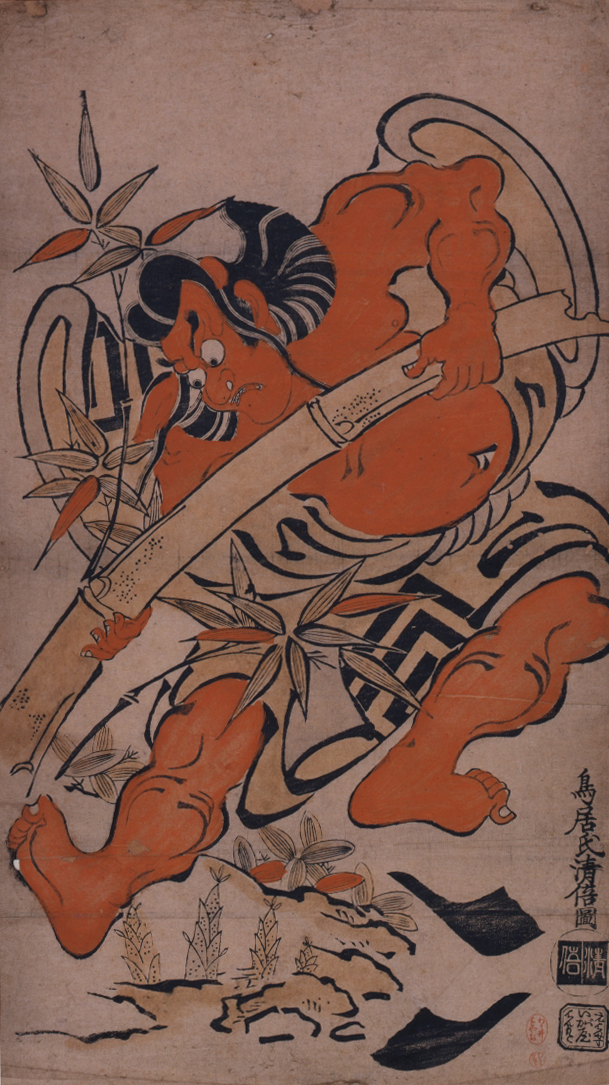 Black Woodprint with red used a brush.